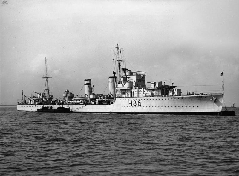 Photograph of British G class destroyer HMS Grenade.